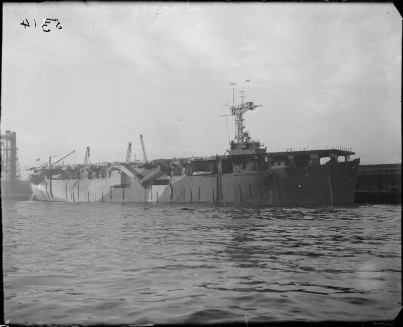 Royal Navy escort aircraft carrier HMS Vindex at Swan Hunter's yard on the Tyne on completion